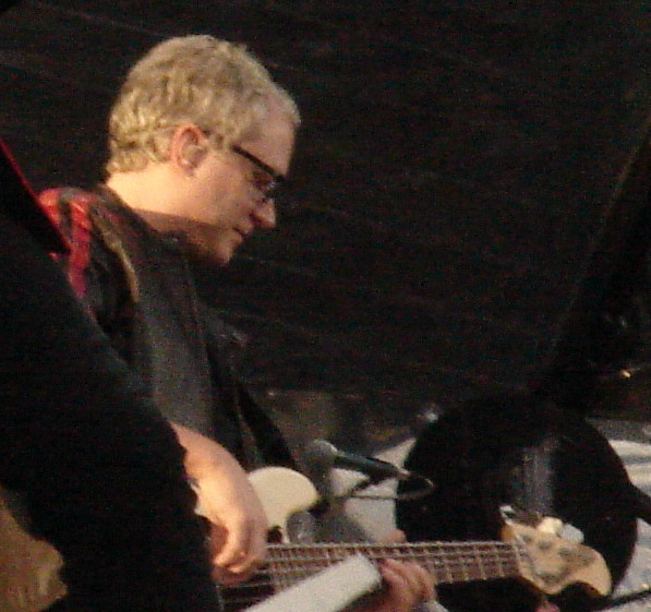 Hugh McDonald on stage live at Dublin May 2006.